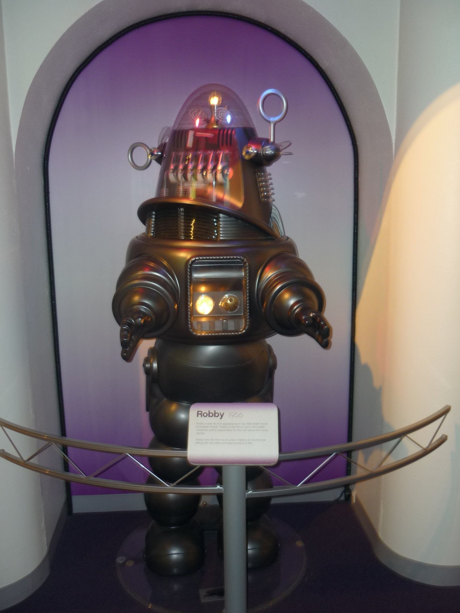 A replica of Robby the Robot that was featured in the 1956 film "Forbidden Planet", at the Robot Hall of Fame, inaugural class of 2004, in Carnegie Science Center, Pittsburgh, PA.